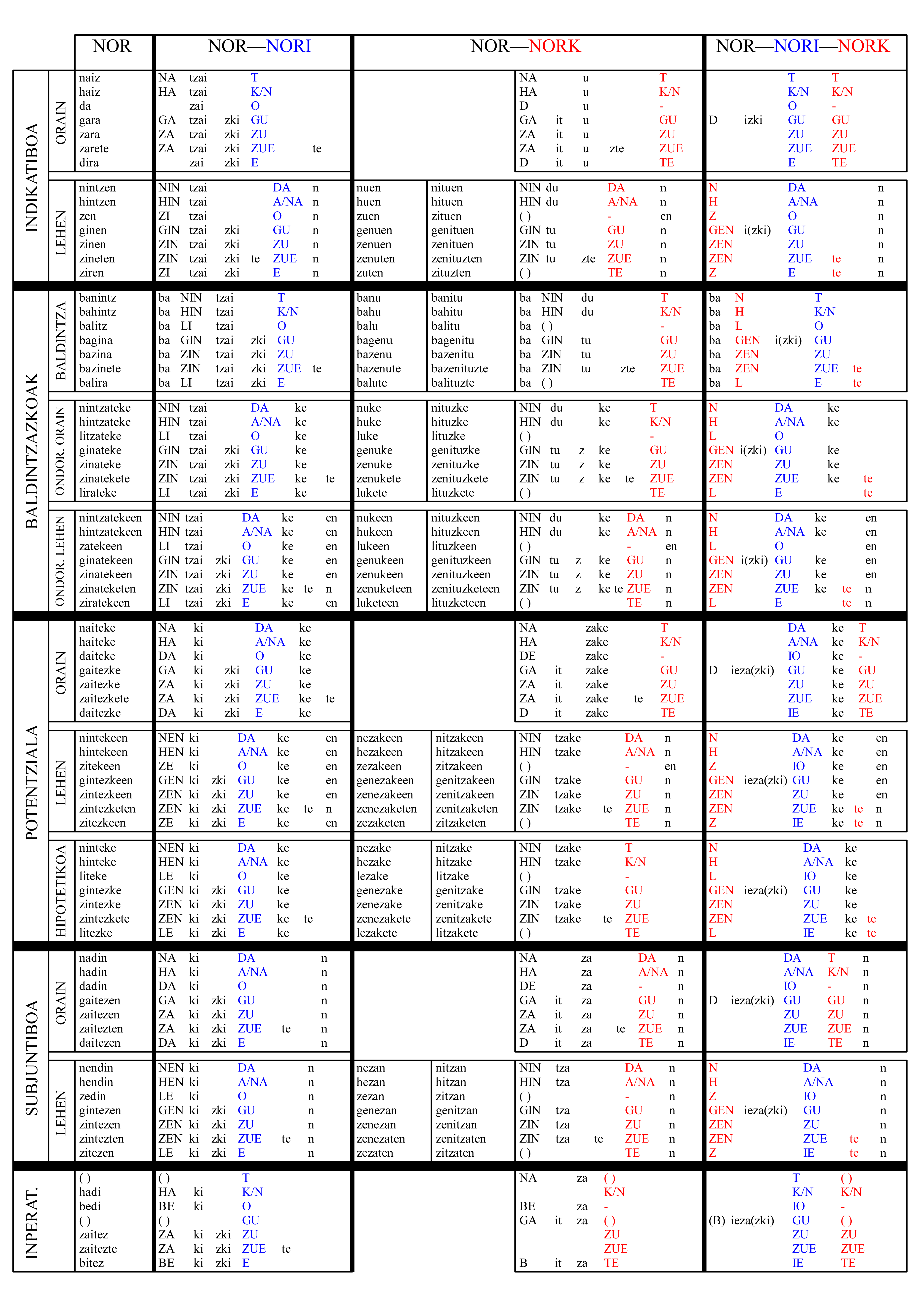 Full table of the most common forms of the Basque auxiliaries izan and ukan